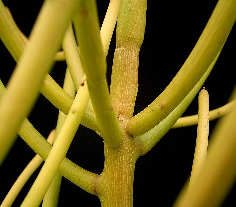 Euphorbia tirucalli